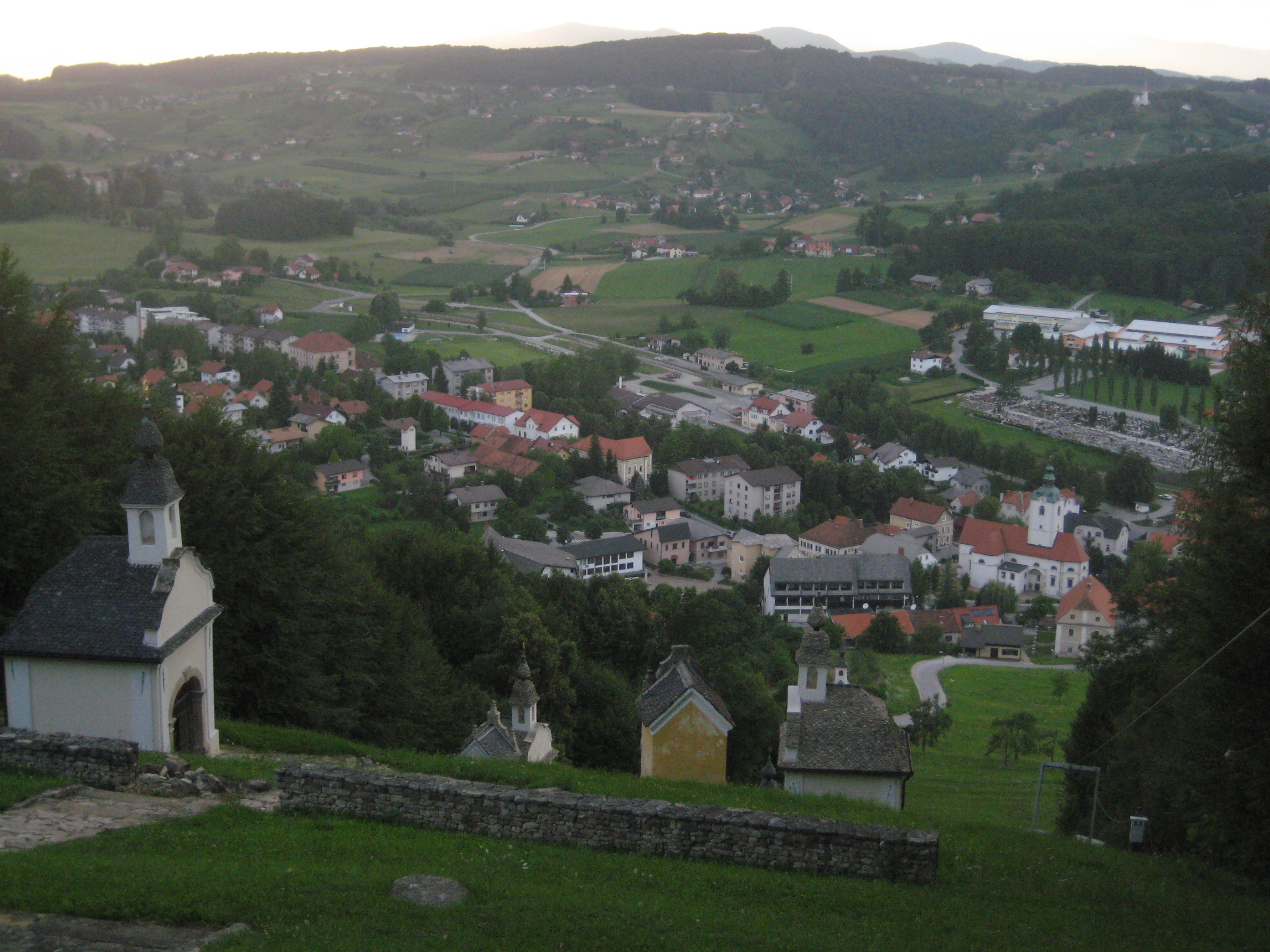 Šmarje pri Jelšah, village in Slovenia